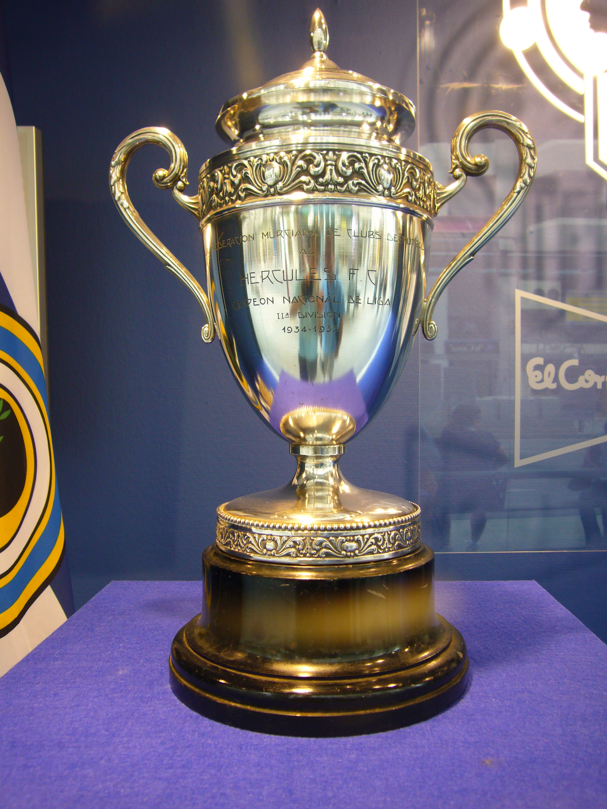 Trophy awarded by the Federation of Football Clubs Murcian the Hércules Football Club (former name of Hércules Club de Fútbol) made by the Second Division championship in Spain in the 1934-35 season.